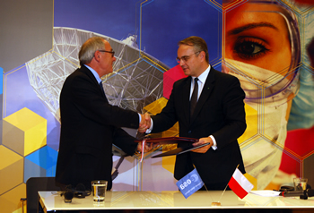 Signing of the Polish membership agreement to the European Space Agency that took place on 13 September 2012 in the Copernicus Science Centre, Warsaw. Agreement was signed by the Vice-Prime Minister of Poland Waldemar Pawlak and the Director General of the European Space Agency Jean-Jacques Dordain